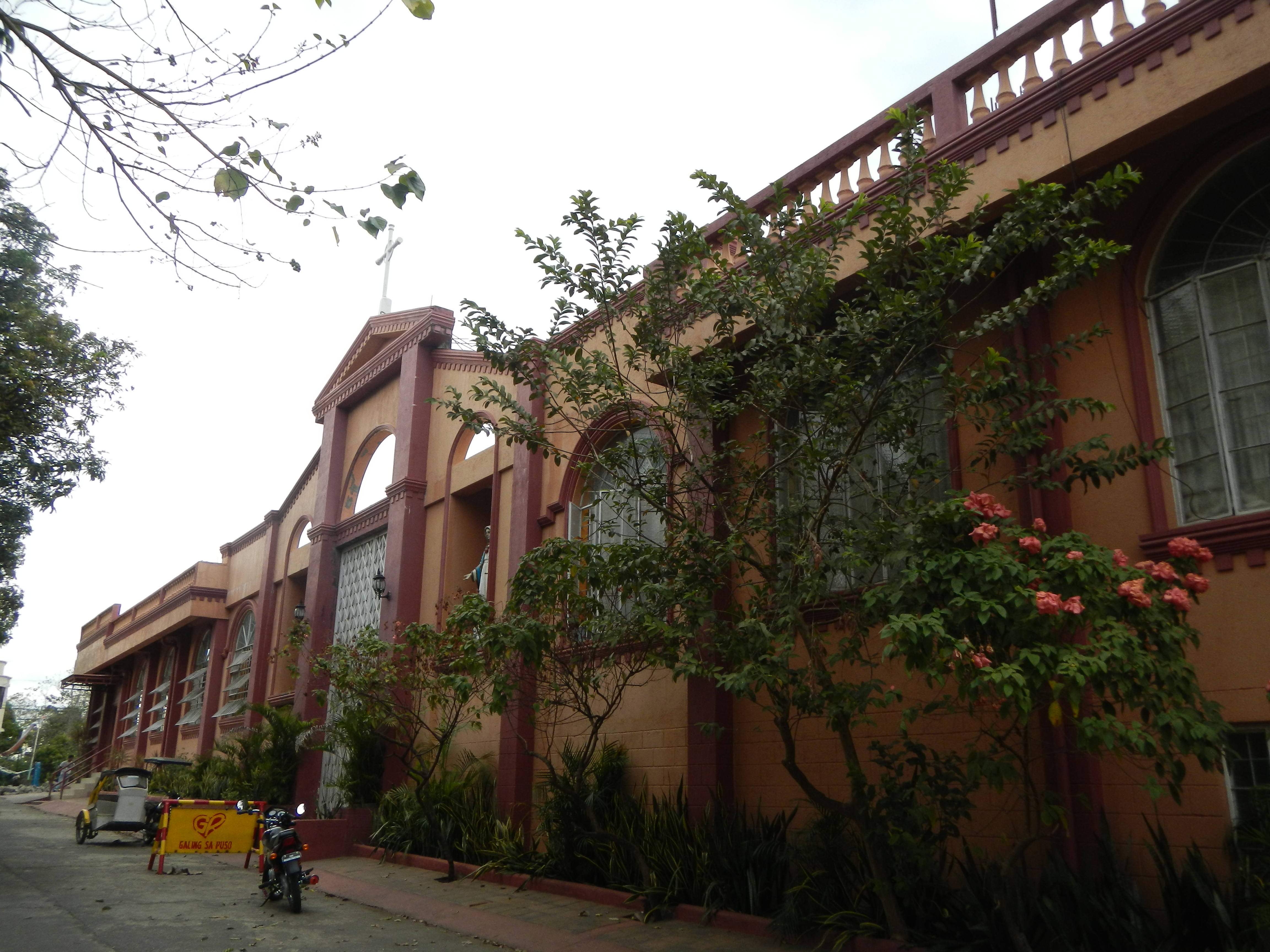 St. Cecilia Parish Church of Palayan CityTitular: St. Cecilia, Nov. 22 Parish Priest: Fr. Jessie C. Salac[1][2][3][4]Palayan City, 3132 Nueva Ecija[5] [6] Note: This Church is a new and temporary one, built to replace the original church which was burned in 2007 more or less. The new one being built is only 10% finished, beside the church in photo, also.